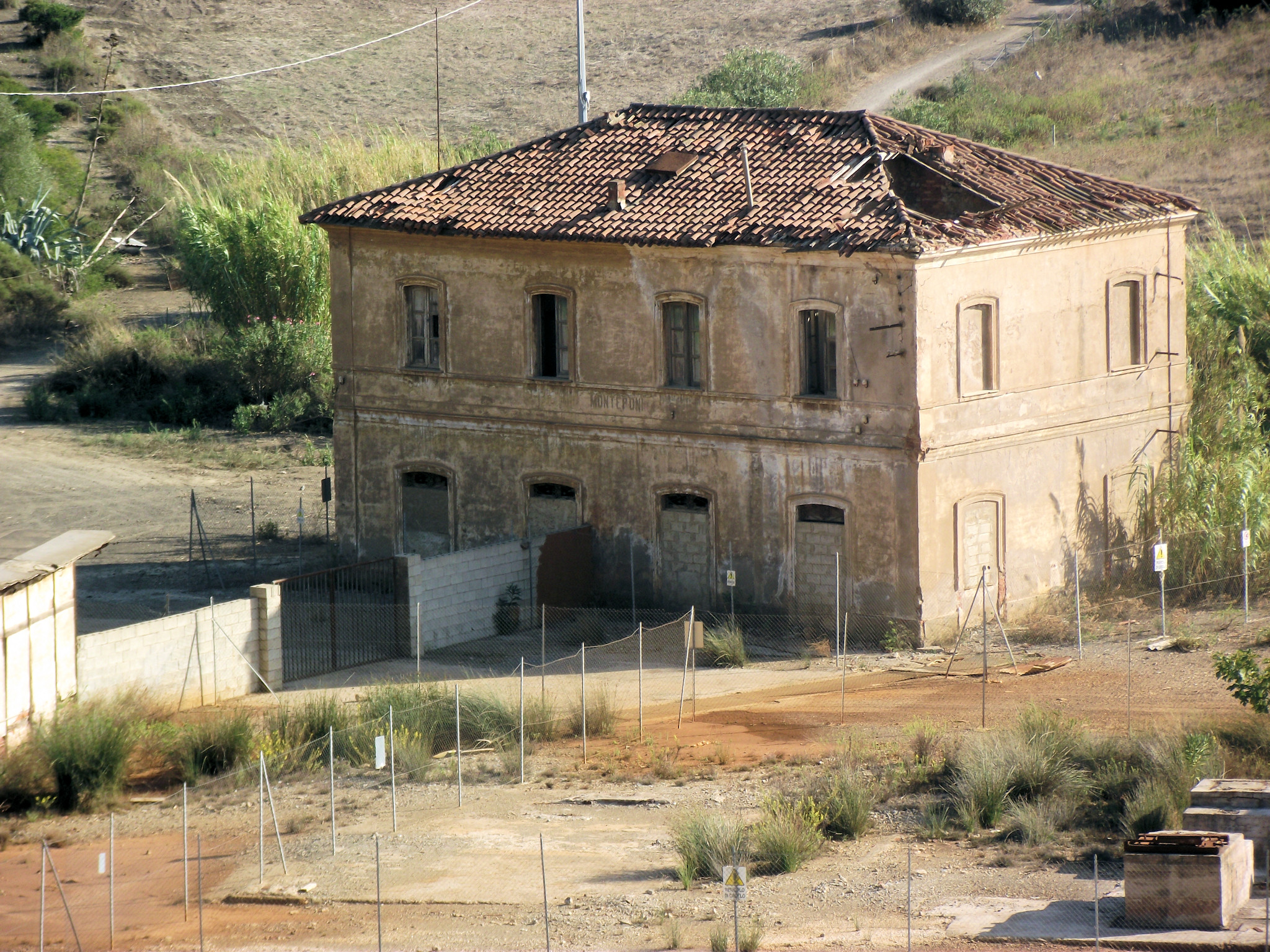 The former FMS railway station of Monteponi, just outside Iglesias, in Sardinia, Italy, along the San Giovanni Suergiu-Iglesias railway, closed in 1974